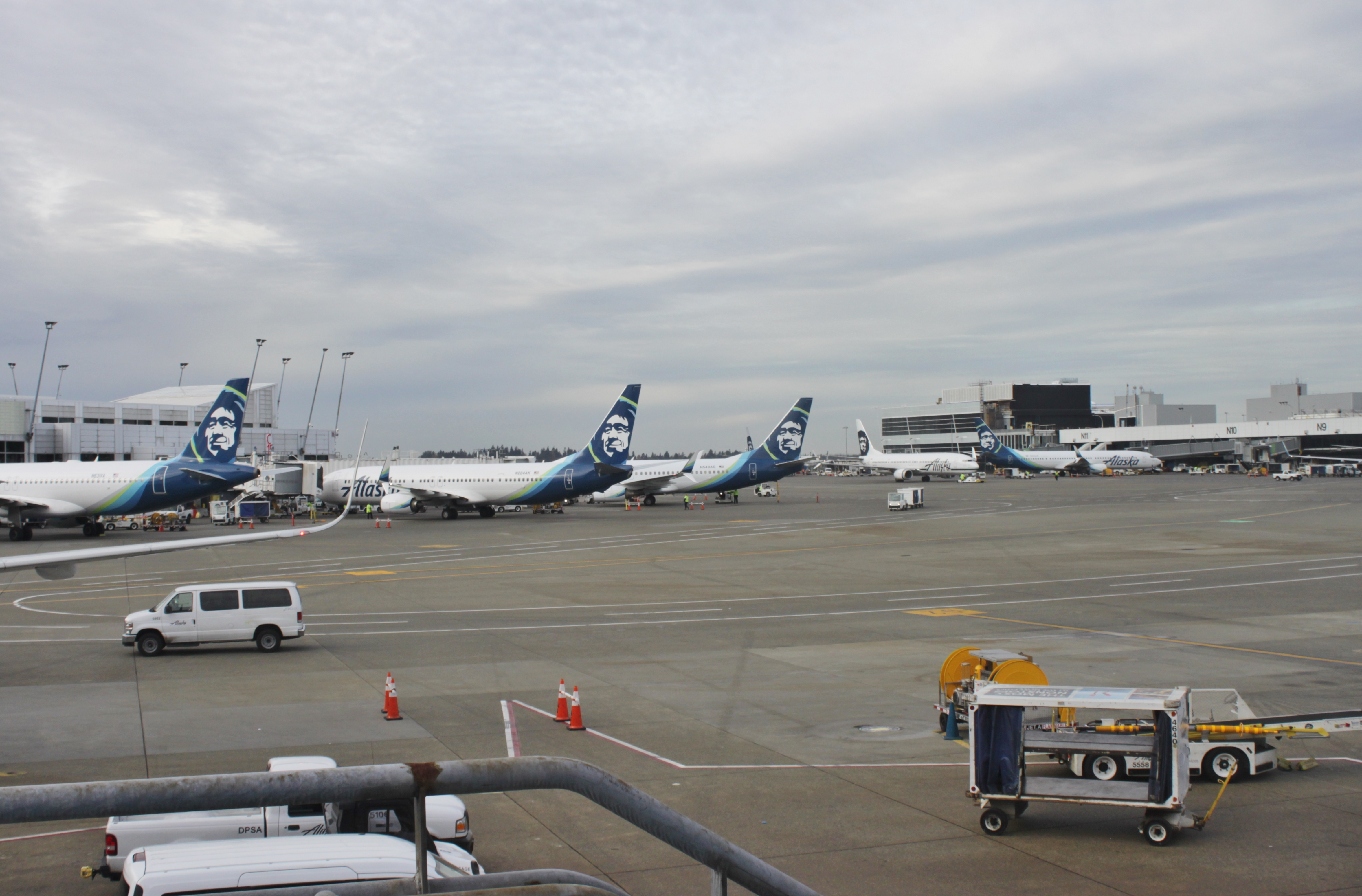 Several Alaska Airlines planes parked at the North Satellite Terminal and a nearby concourse of Seattle–Tacoma International Airport